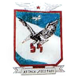 Emblem of the USAAF 453d Bombardment Group